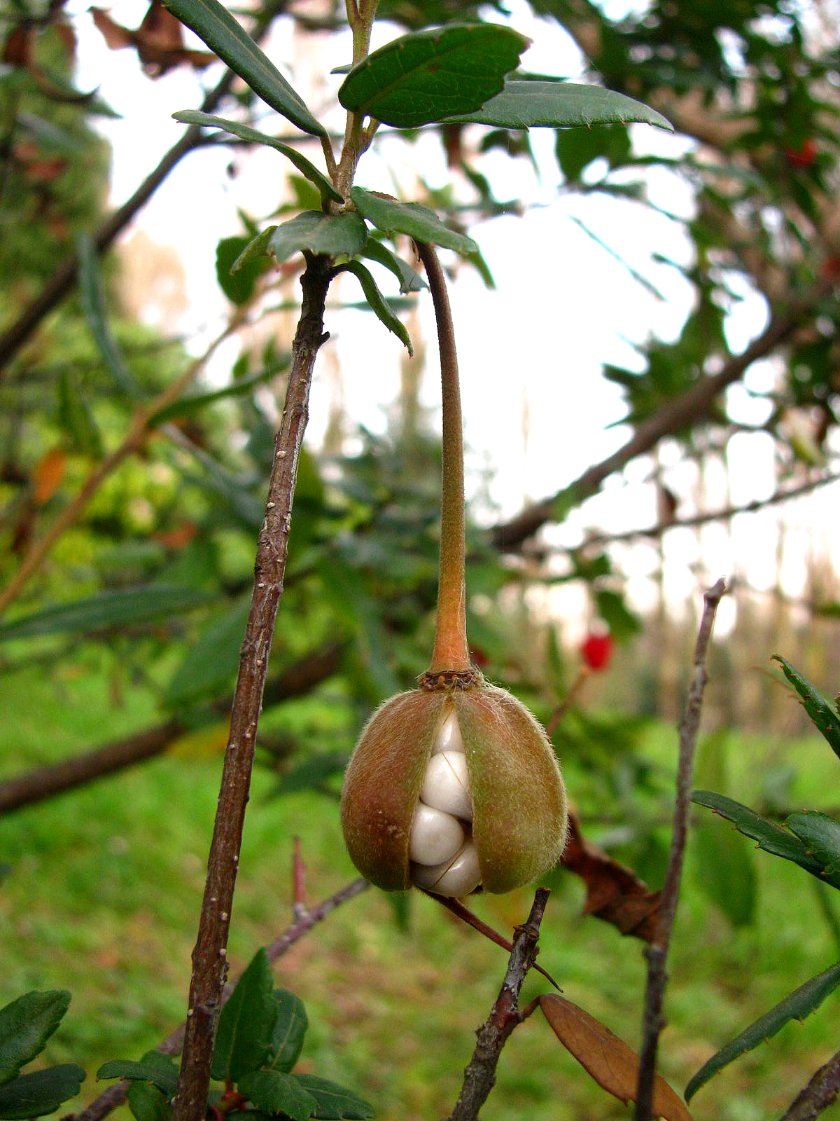 sweet seeds of Crinodendron hookerianum in Chile